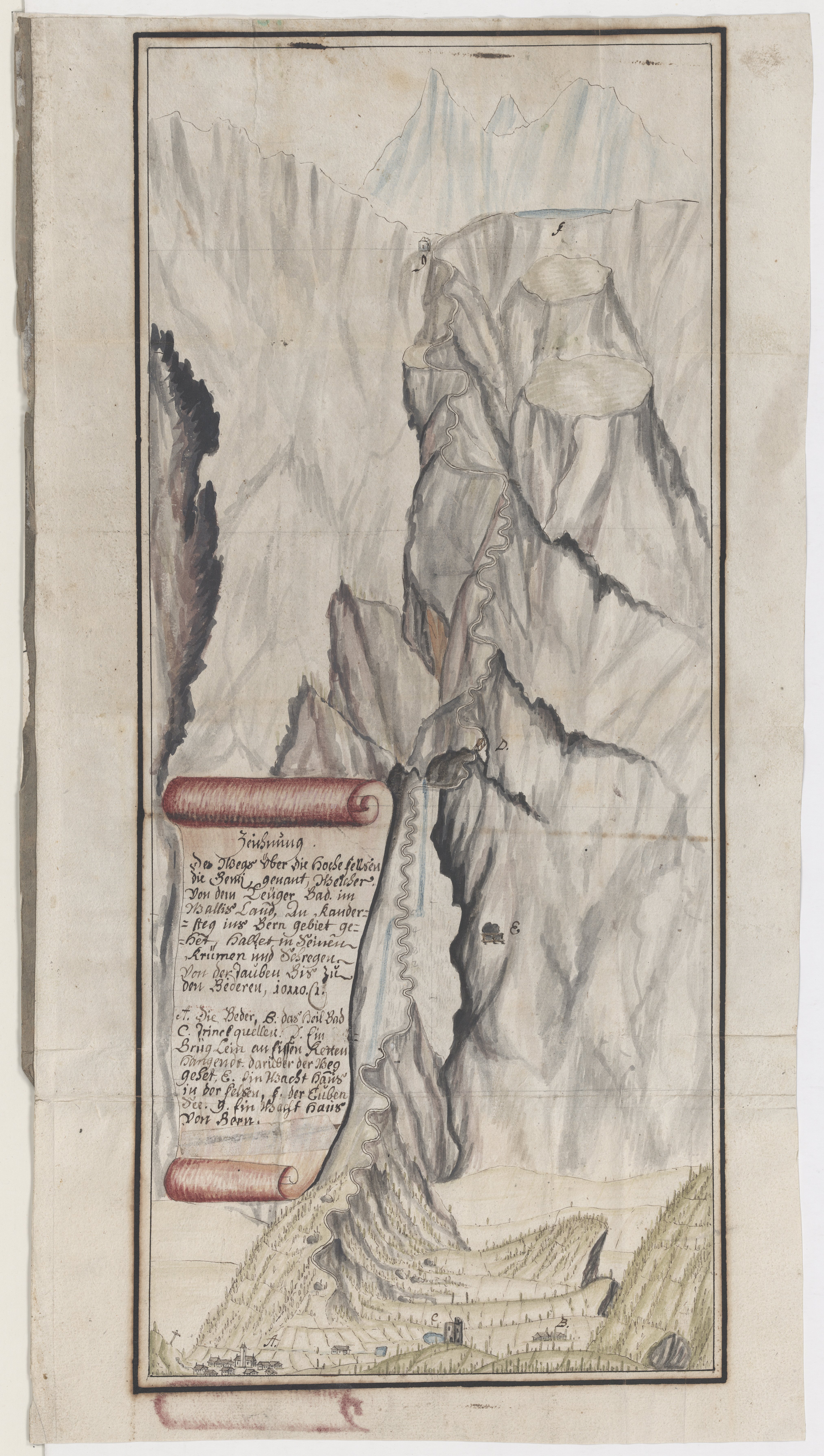 Drawing of the Gemmi Pass in the Bernese Alps